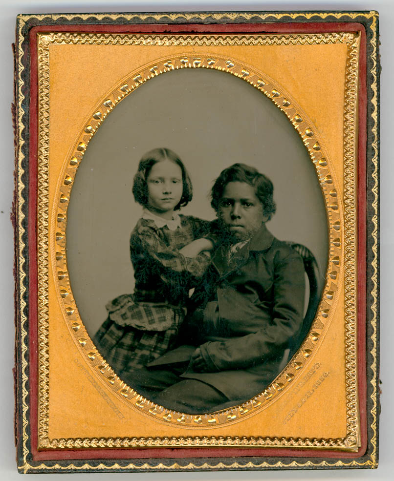 This image is in the collection of the Massachusetts Historical Society. It is thought to be a portrait of Mary Mildred Williams and her brother Oscar, several years after her original daguerrotype.